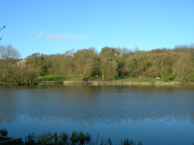 Lake in Capstone Farm Country Park.